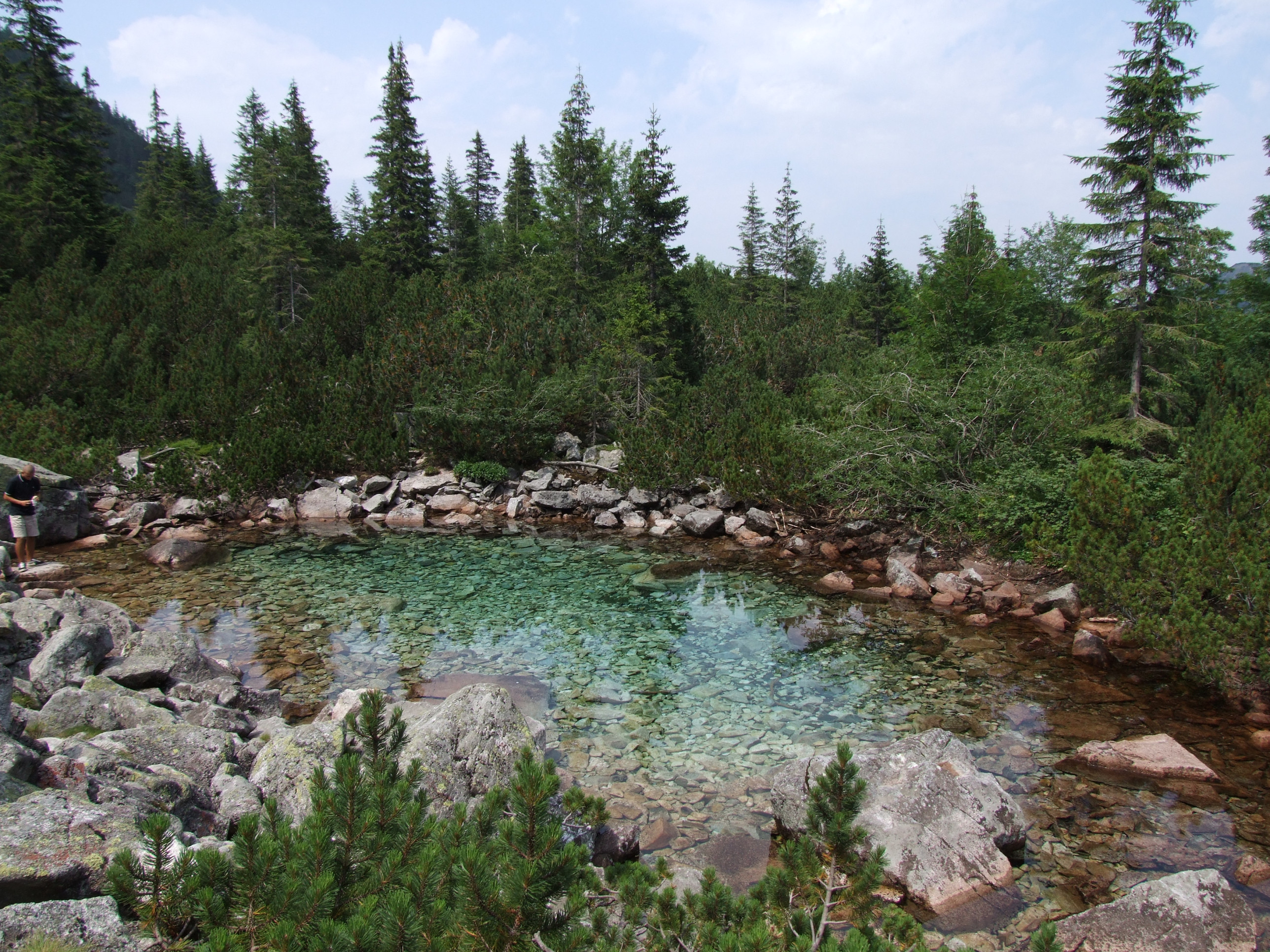 Spalona Dolina, Zielony Stawek (West Tatra Mountains)